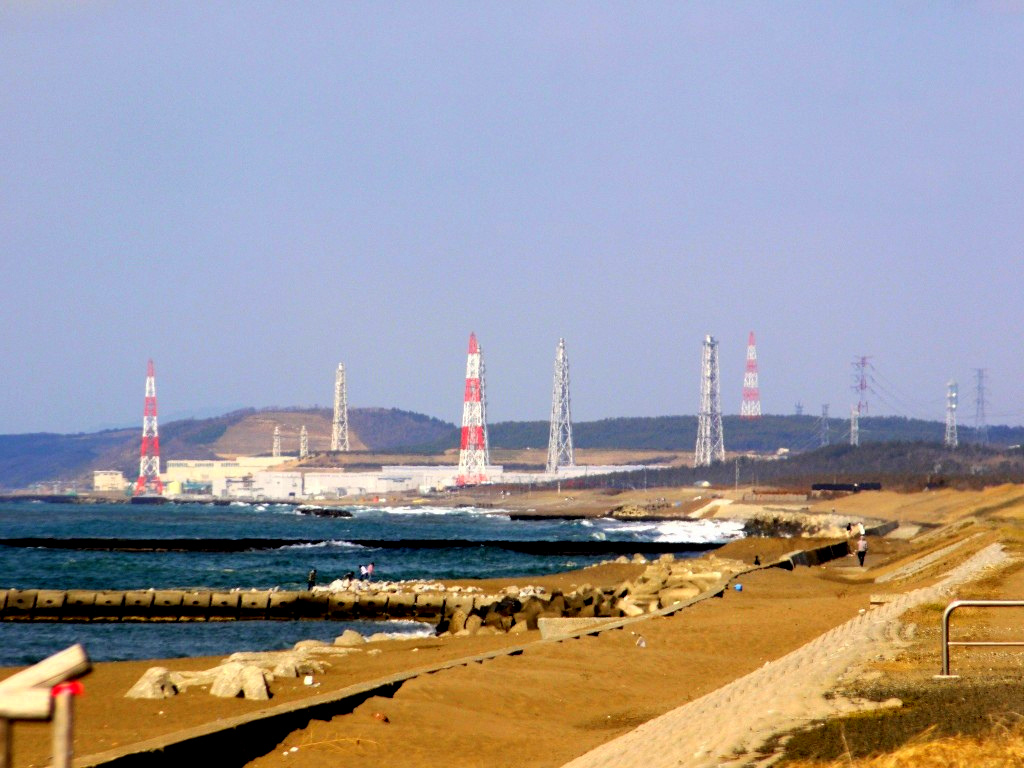 The Kashiwazaki-Kariwa Nuclear Power Plant taken from the south beach in the central seaside resort in Kashiwazaki, Niigata, Japan.